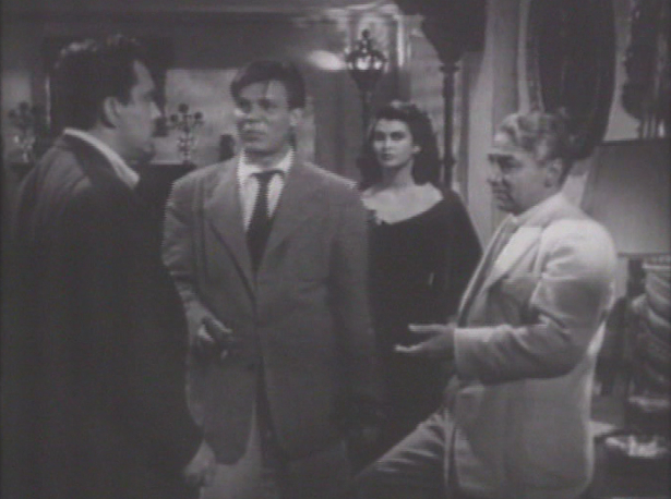 Cropped screenshot of Edmond O'Brien, Neville Brand, Laurette Luez and Luther Adler from the film D.O.A. (1950).